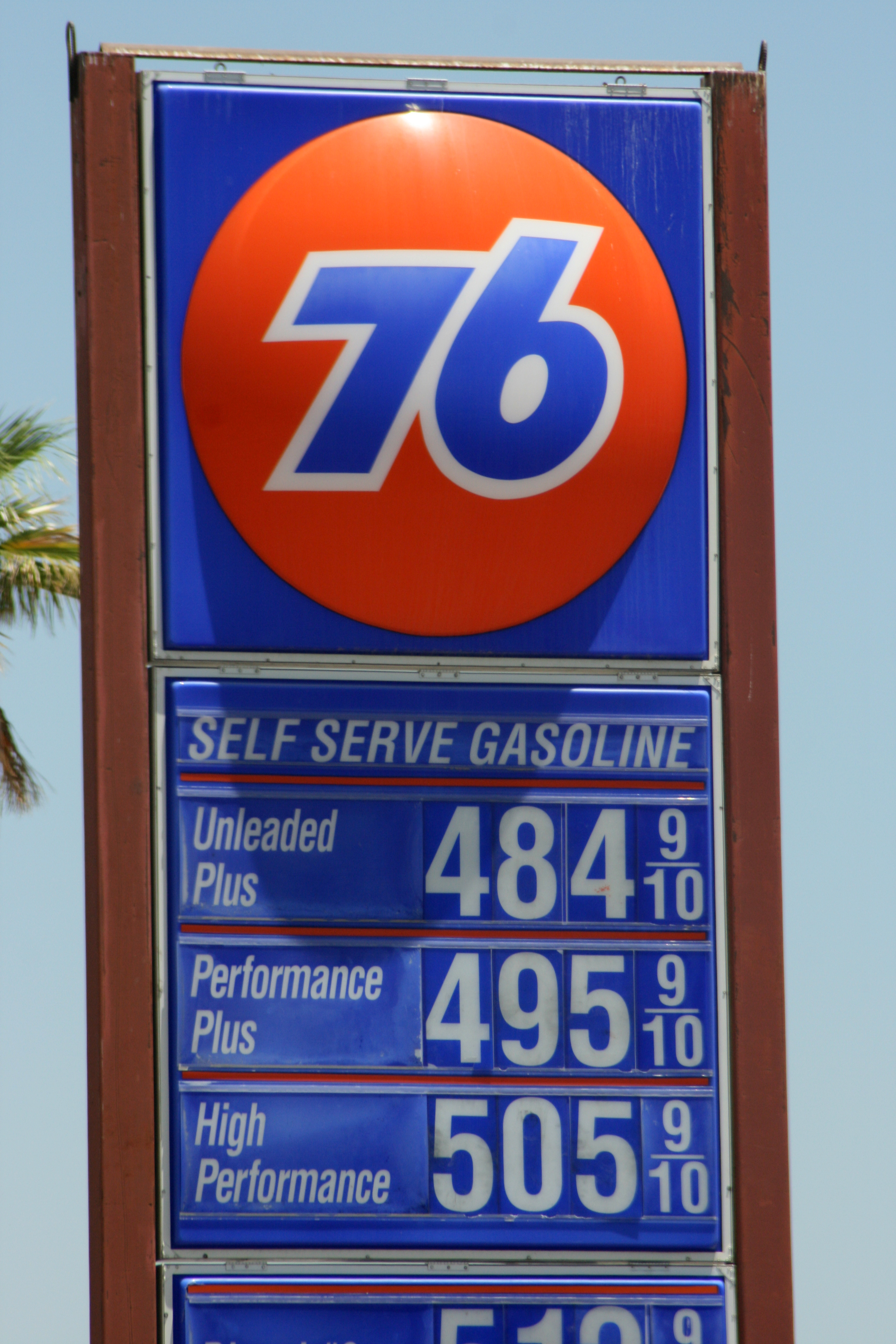 76 gas station sign showing $5/gallon gas in 2008.